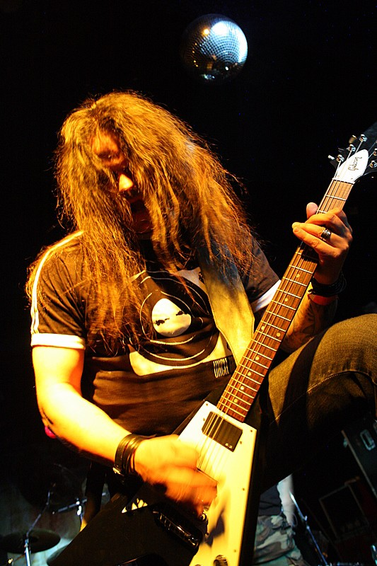 Black River, Lublin, Graffiti, 10.12.2008